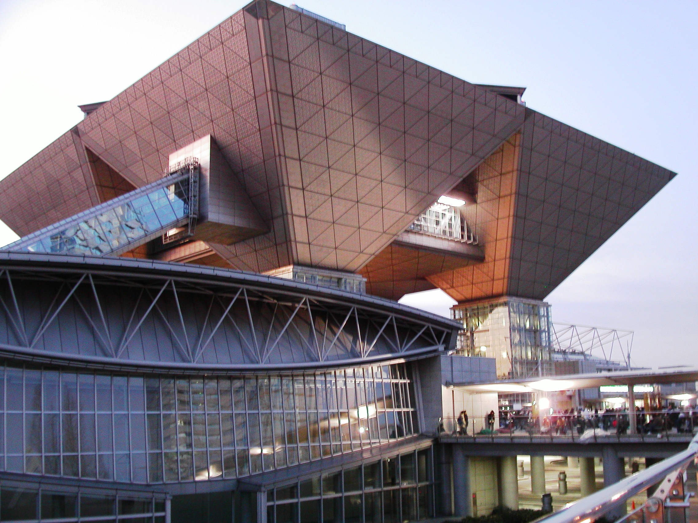 Comic market 71 in Tokyo Big Sight.